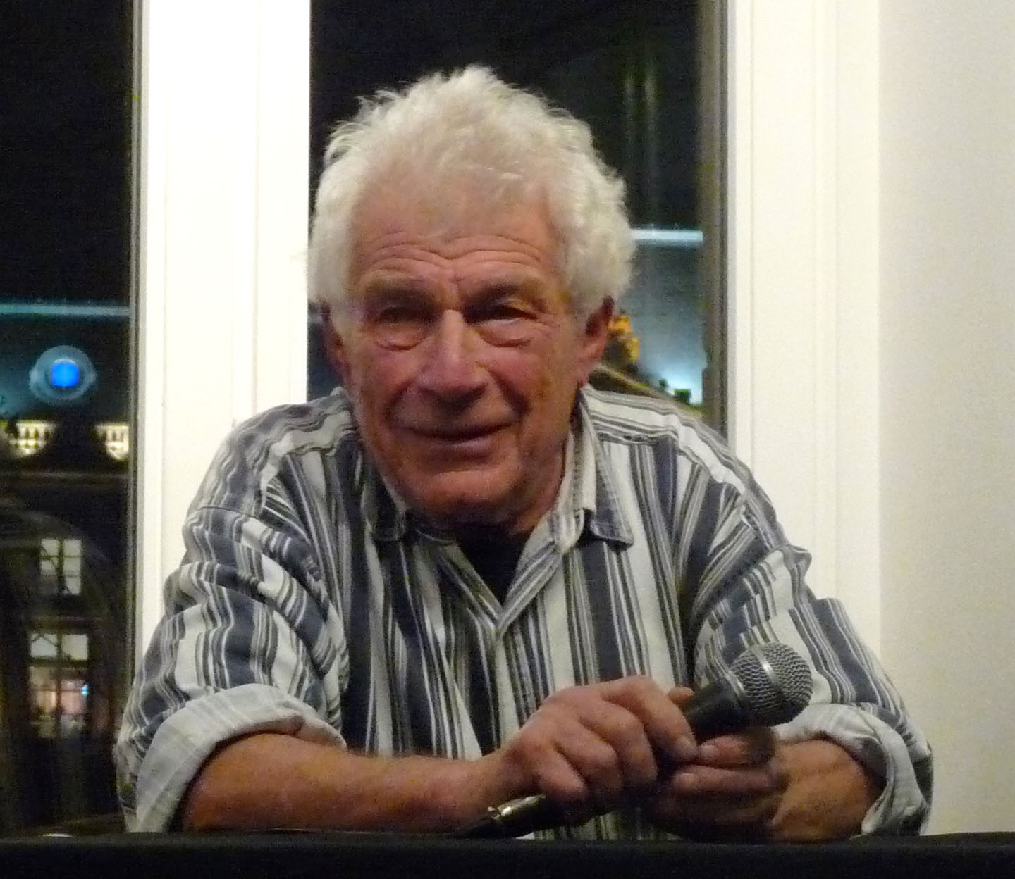 British writer John Berger